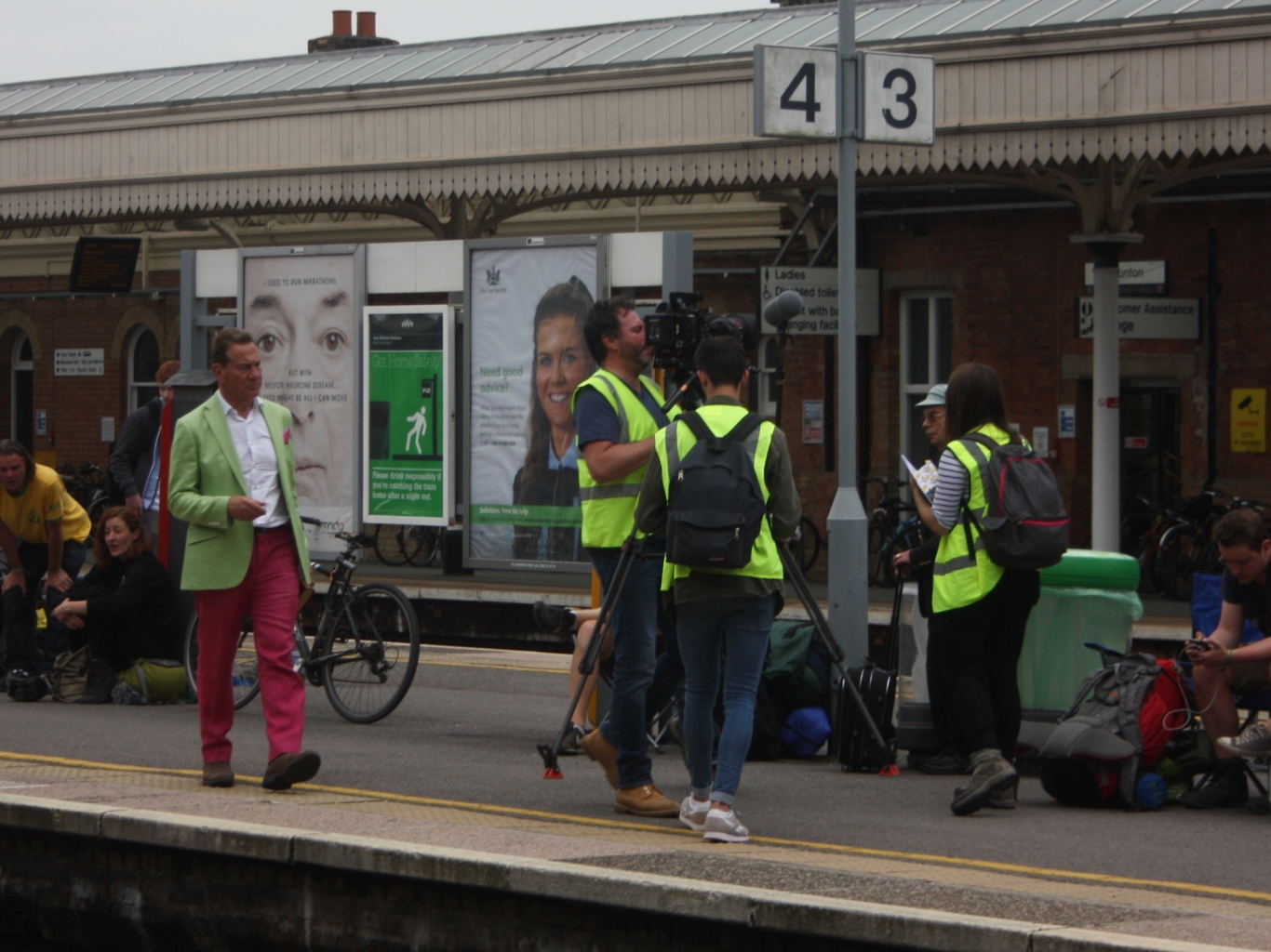 Michael Portillo filming for another of his Great Railway Journeys at Taunton.